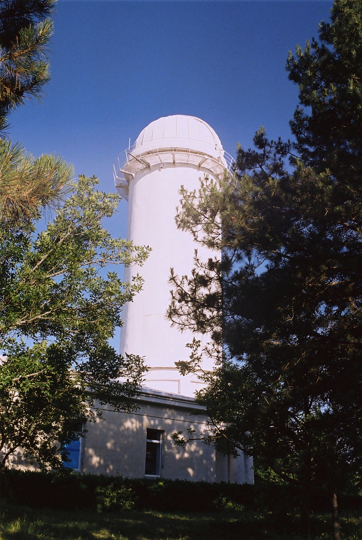 BST-1 Solar telescope of the Crimean Astrophysical Observatory, Crimea, Ukraine. This photograph was taken with a Zenit camera in June 2005 by Kirill Sokolovsky. (c) Kirill Sokolovsky aka Kirx 12:00, 20 August 2006 (UTC).